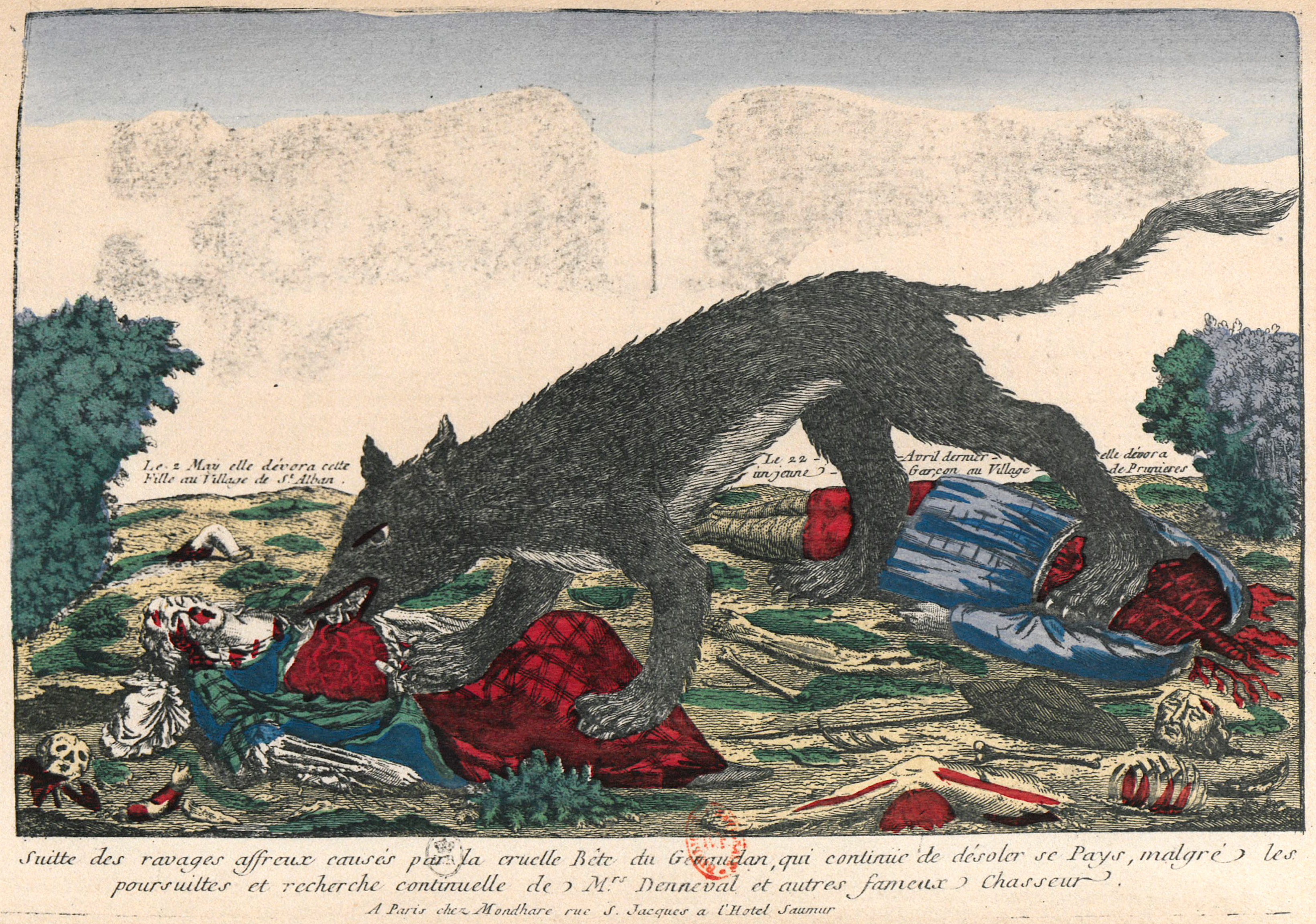 18th century print depicting the Beast of Gévaudan.